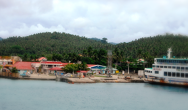 Balwarteco in Allen Northern, Samar